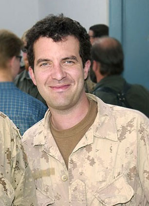 Comedian Rick Mercer and Olympic speed skating gold medalist Catriona Le May Doan are among the high-profile Canadians headed to Afghanistan on a trip meant to boost morale among the troops. The elite entourage also includes Montreal Canadiens legend Guy Lafleur, who says he may not find many Habs fans on the streets of Afghanistan, but he is expecting a warm reception from the troops.